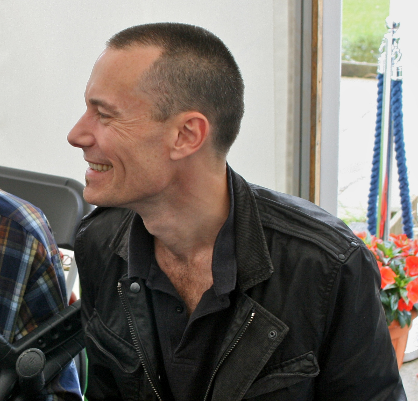 Andrew Smith at Jodrell Bank